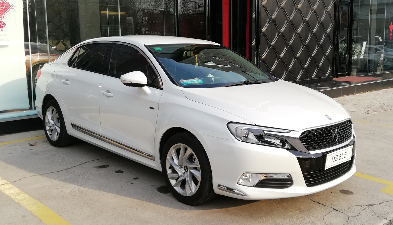 DS 5LS photographed in Zhengzhou, Henan province, China.